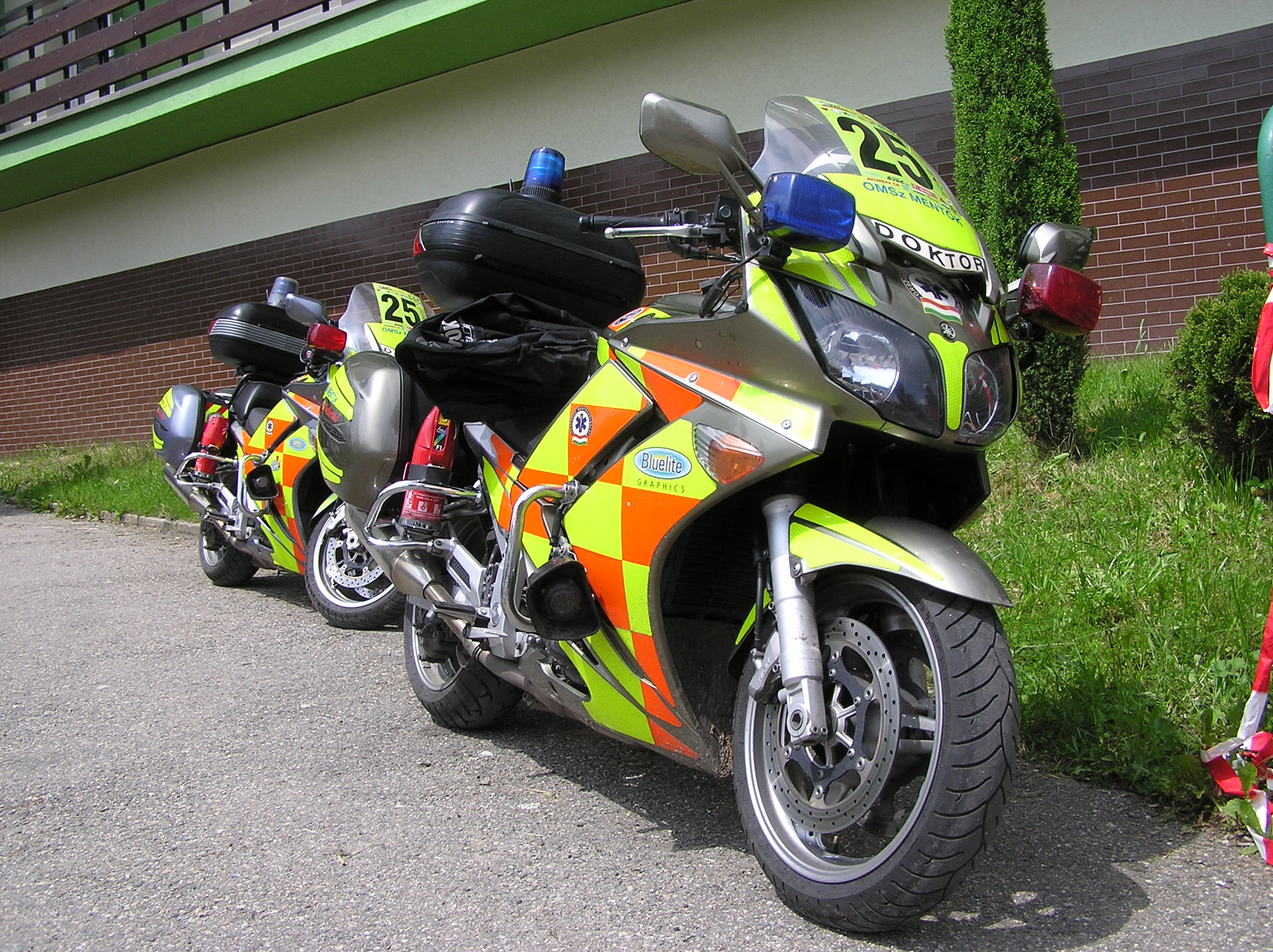 Hungarian first responder unit motorcycles. Photo was taken during the international competition Rallye Rejvíz 2010 in Kouty nad Desnou, Czech Republic